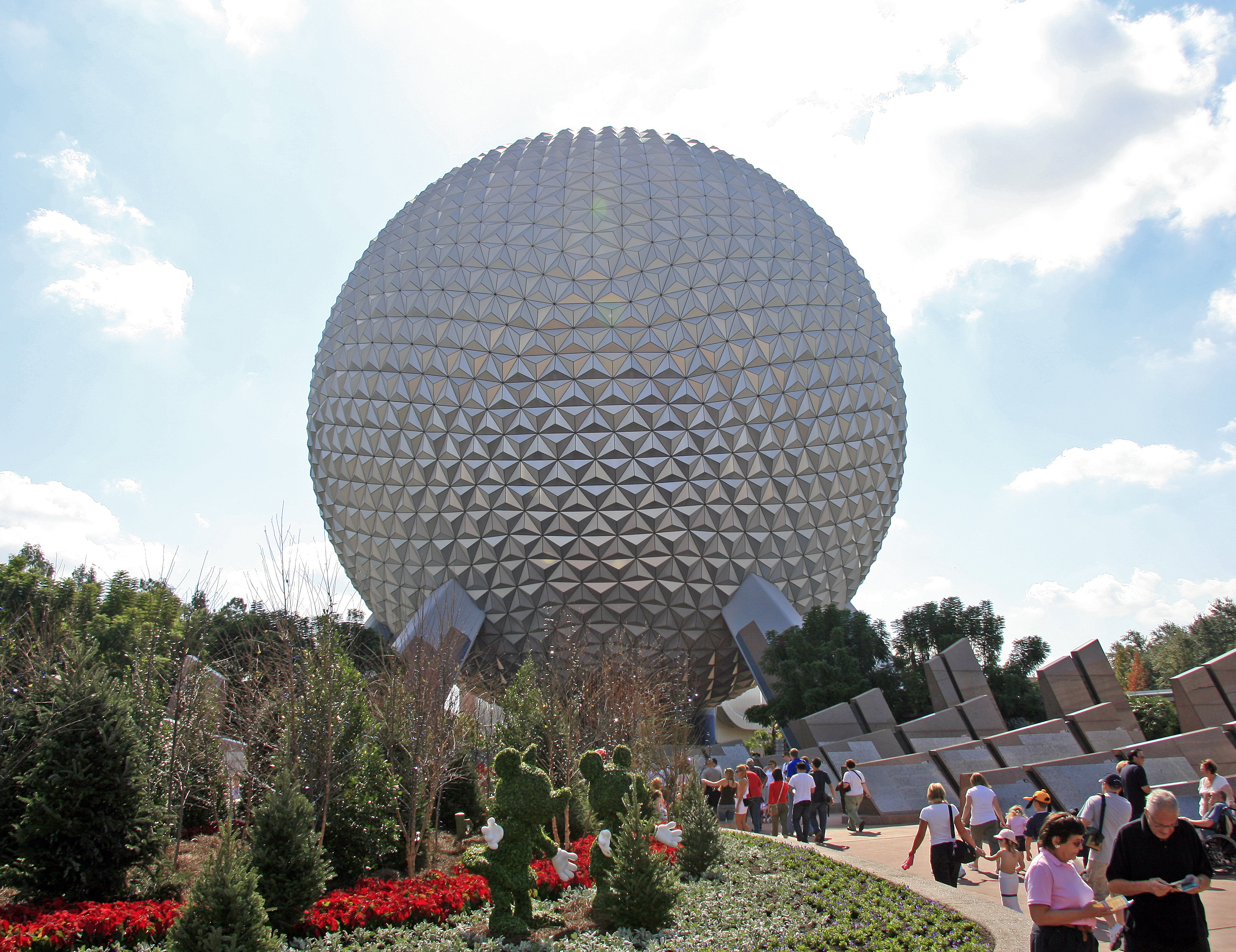 Disney EPCOT Florida